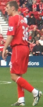 John Johnson.